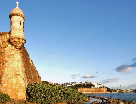 Photo of a bartizan—garita in el Morro Castle in San Juan, Puerto Rico.